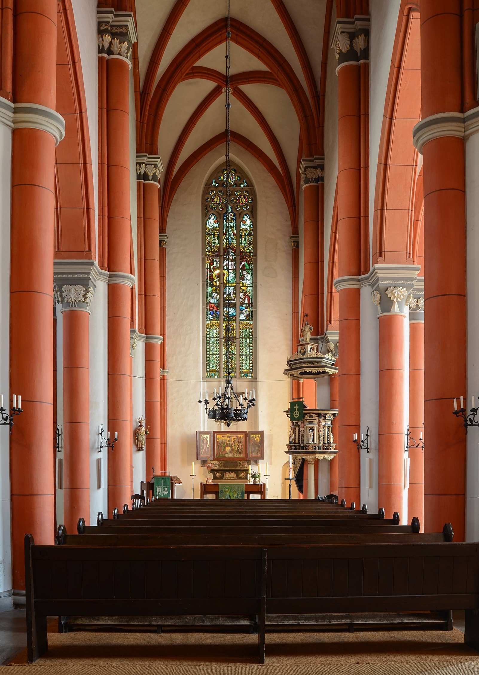 Einbeck (Lower Saxony, Germany) – Lutheran Saint James Church – interior This is a photograph of an architectural monument.It is on the list of cultural monuments of Einbeck This photograph was taken with a Nikon D7000